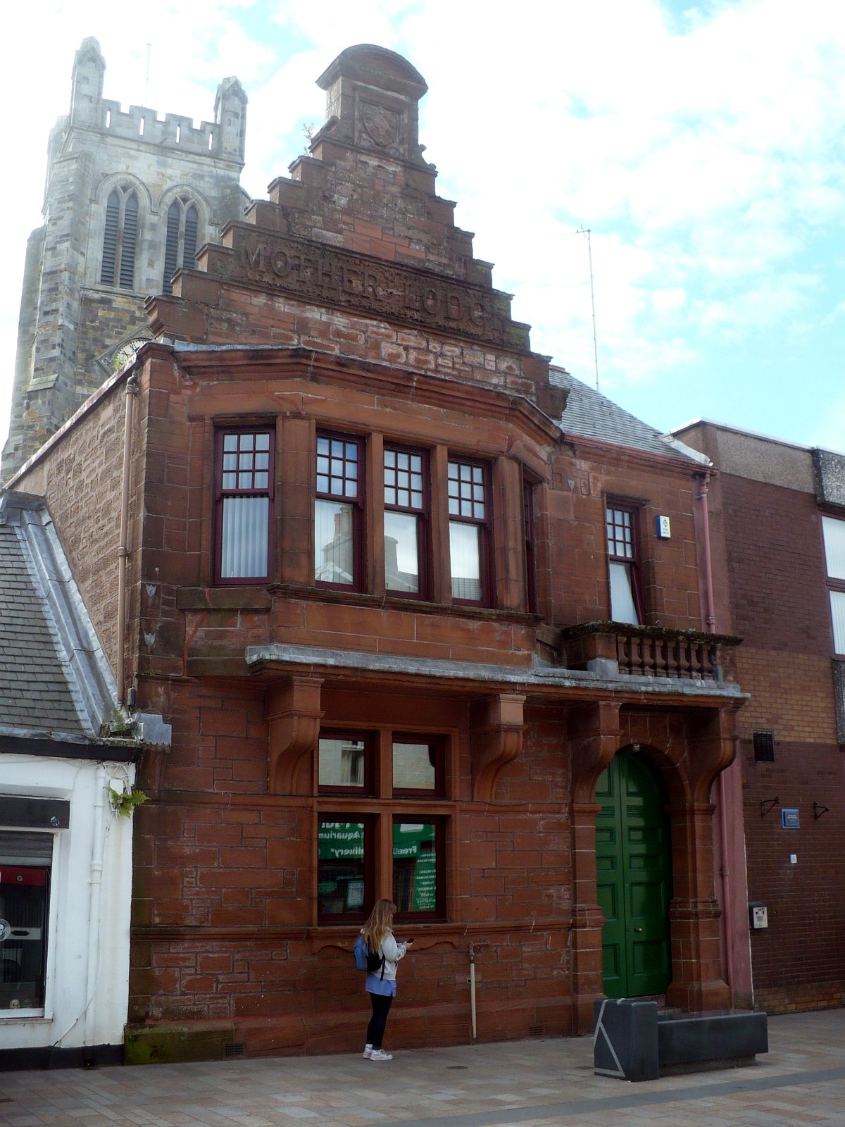 Mother Lodge building in Kilwinning, North Ayrshire, Scotland